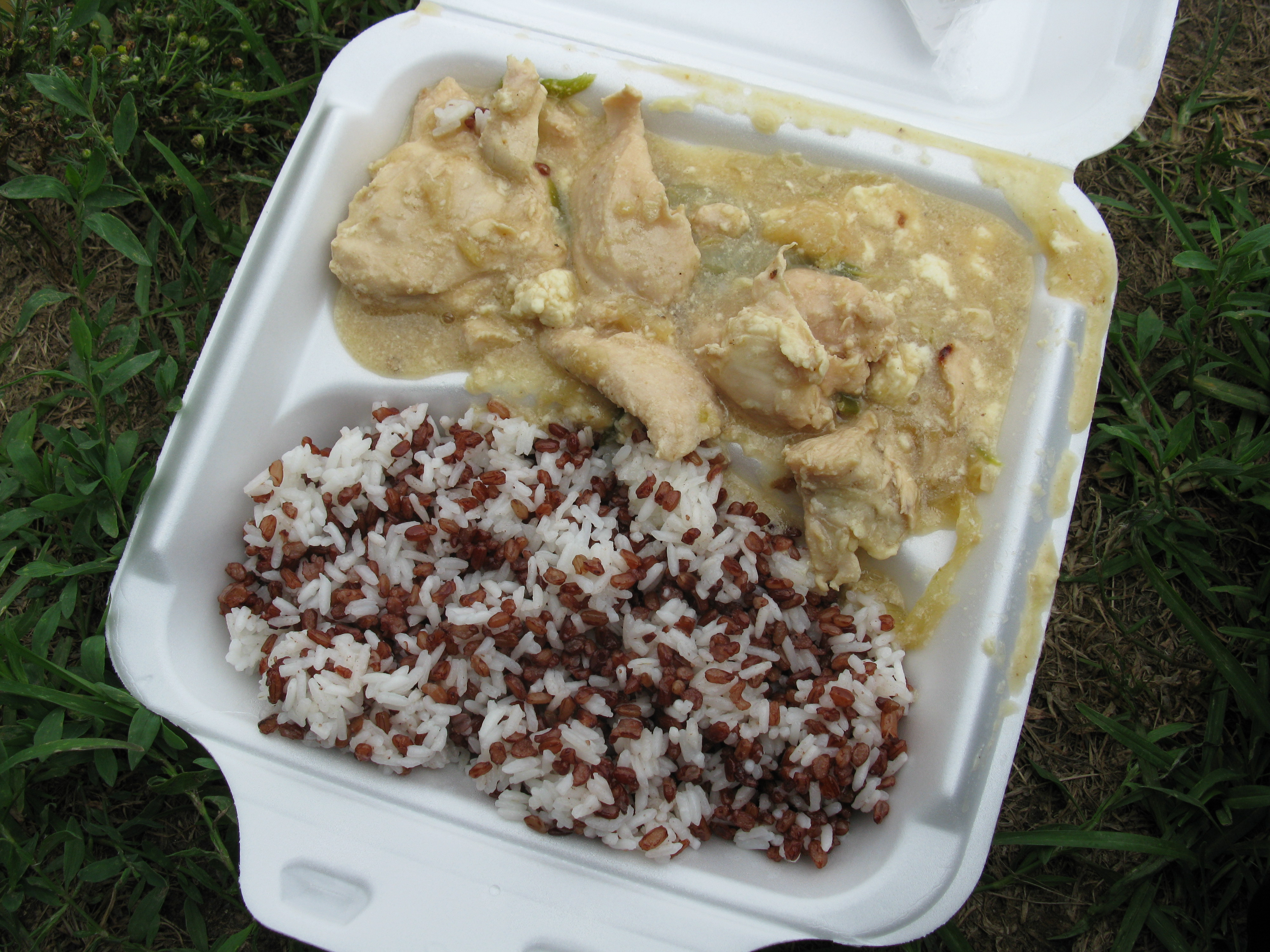 The traditional Bhutanese dish Jasha Tshoem - minced chicken with kari and bhutanese red rice.